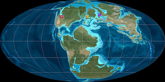 Distribution of Ophthalmosaurus fossils on a map of the world in the late Jurassic. Orange: O. icenius, red: O. (Baptanodon) natans, violet: Russian taxa currently subsumed under Ophthalmosaurus